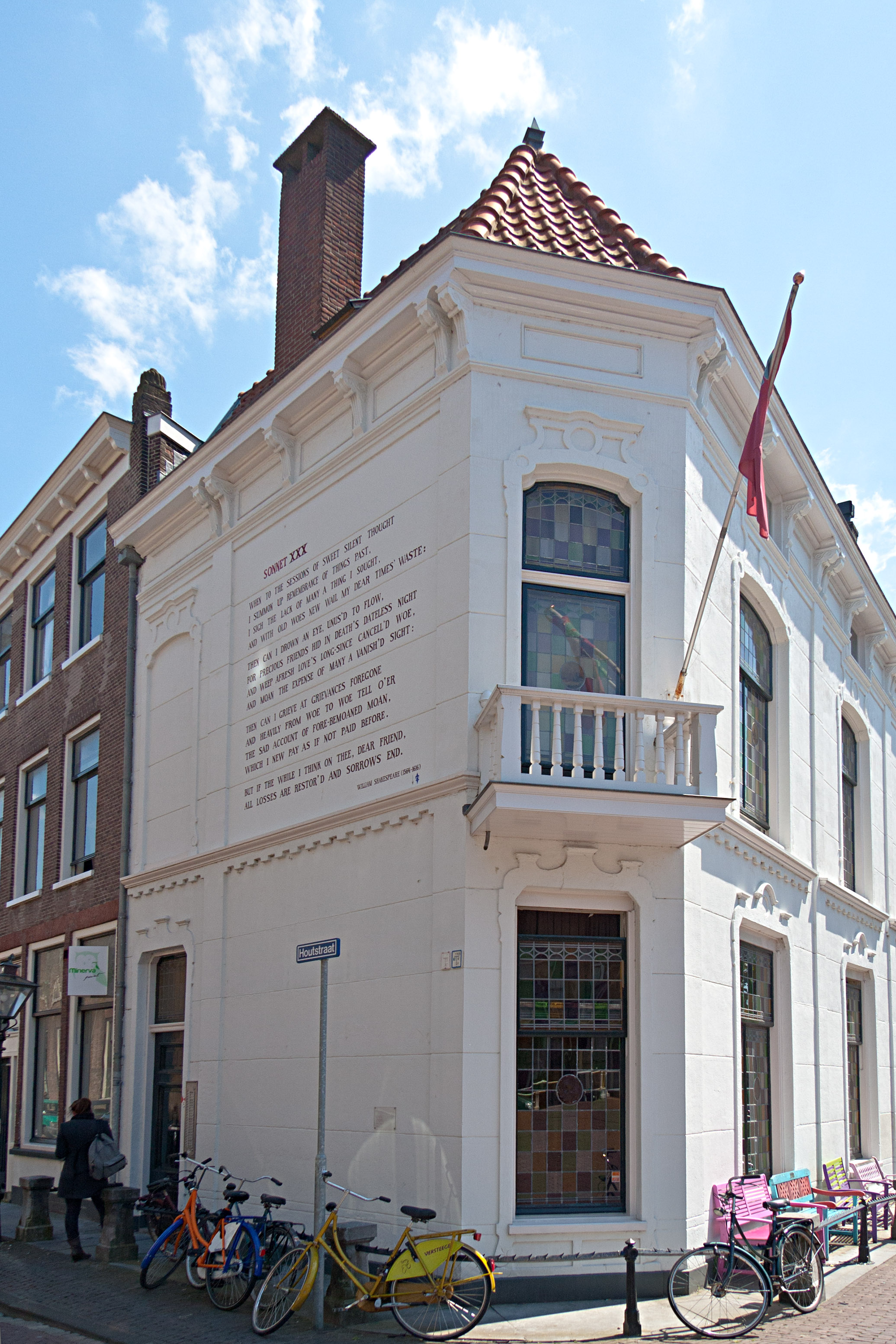 A wall poem in Leiden, the Netherlands, Sonnet XXX, in English, by William Shakespeare